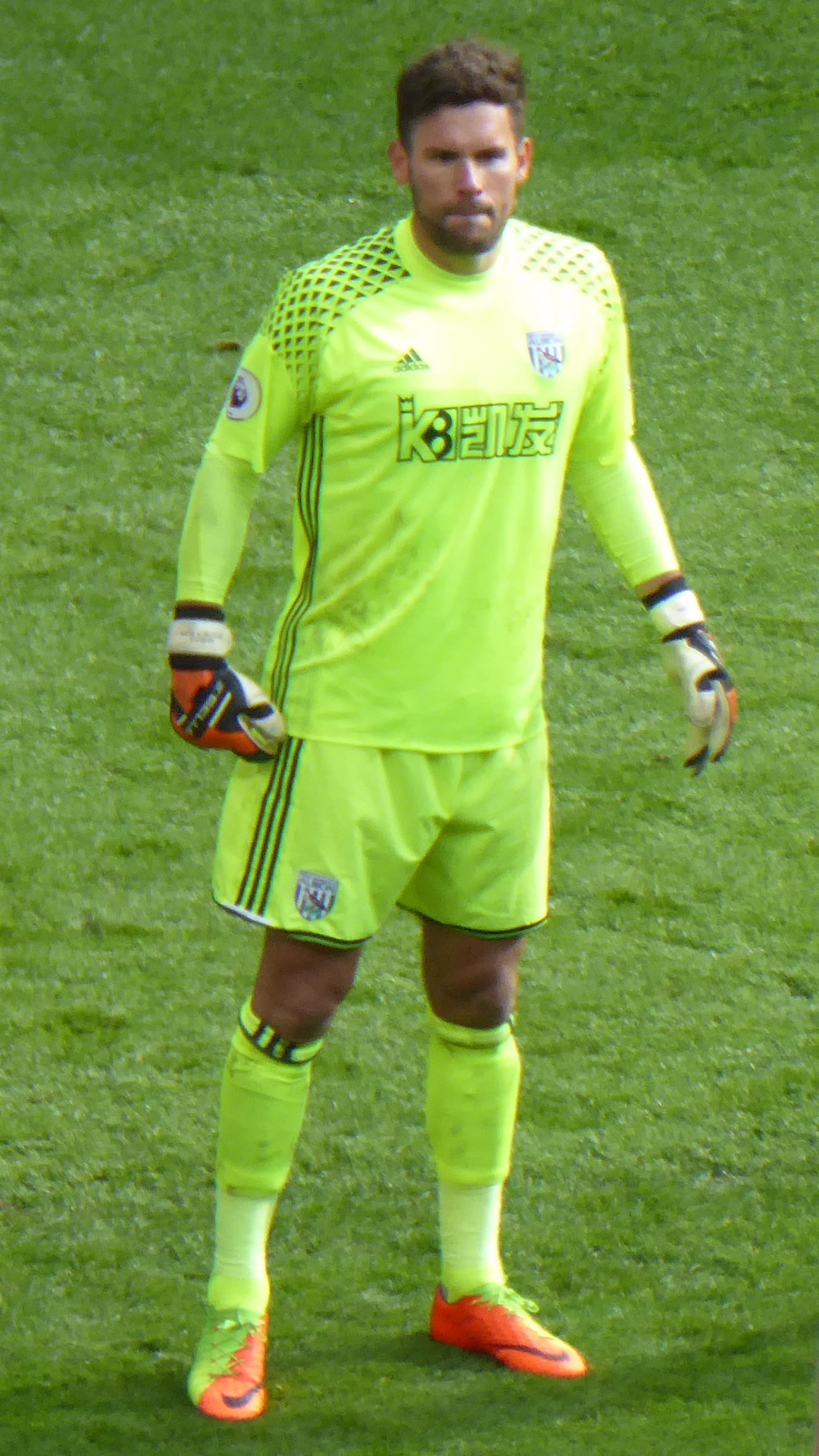 Ben Foster of West Bromwich AlbionManchester United v West Bromwich Albion (0-0), Premier League, Old Trafford, Manchester, Greater Manchester, England, 1 April 2017